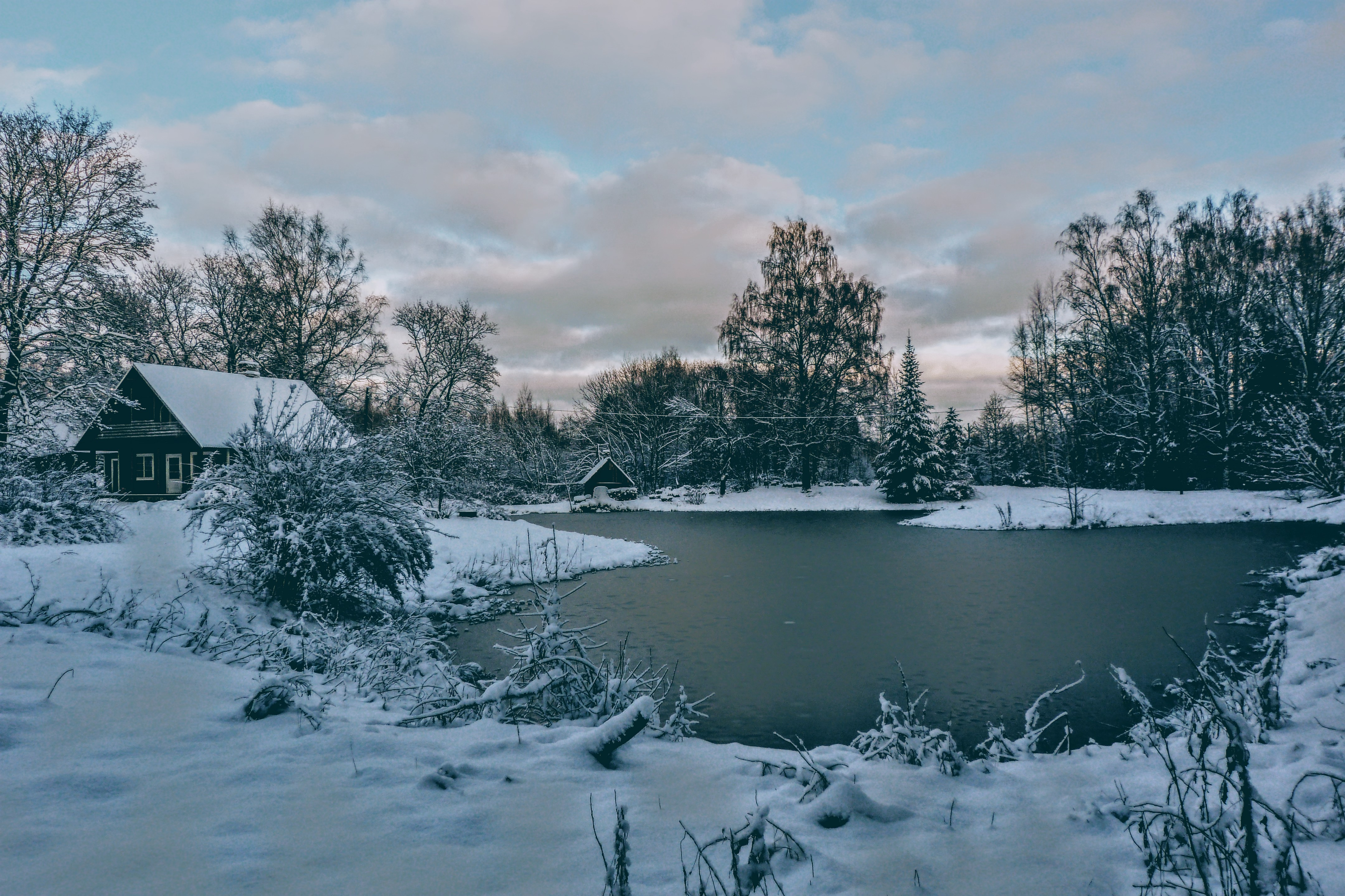 Summer house in Aiaste, Estonia, with a small lake as its surrounding. Taken in winter 2017